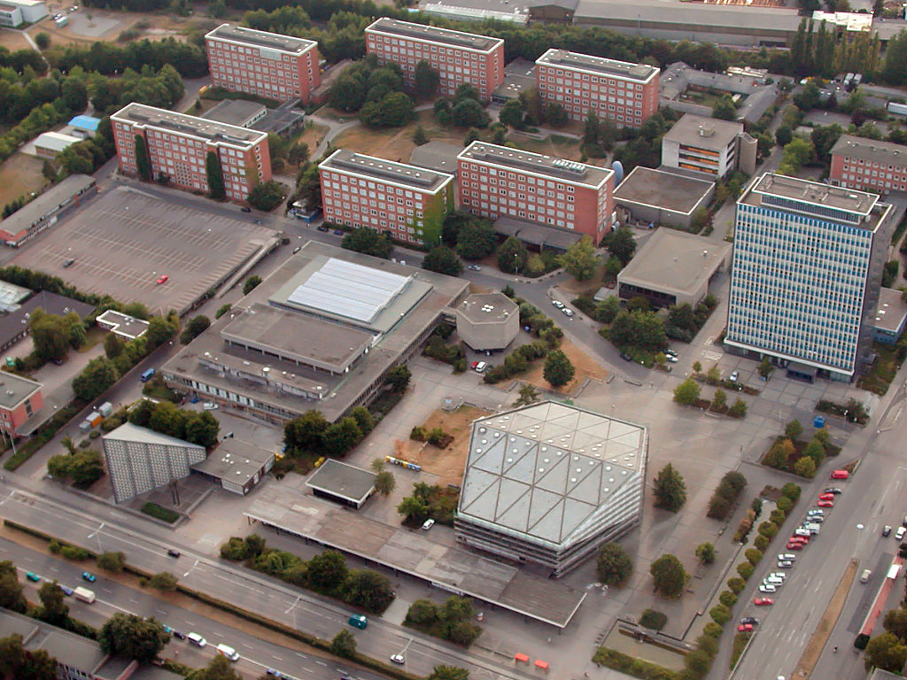 CAU Kiel, Germany, aerial photo of the Audimax